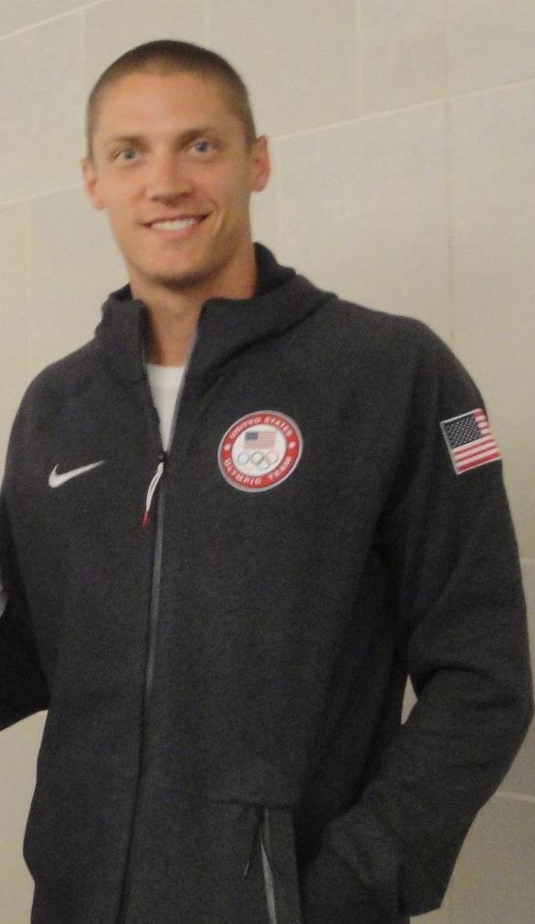 Trey Hardee, 2012 Olympic Decathlon Silver Medalist, DTW, 8/12/12.